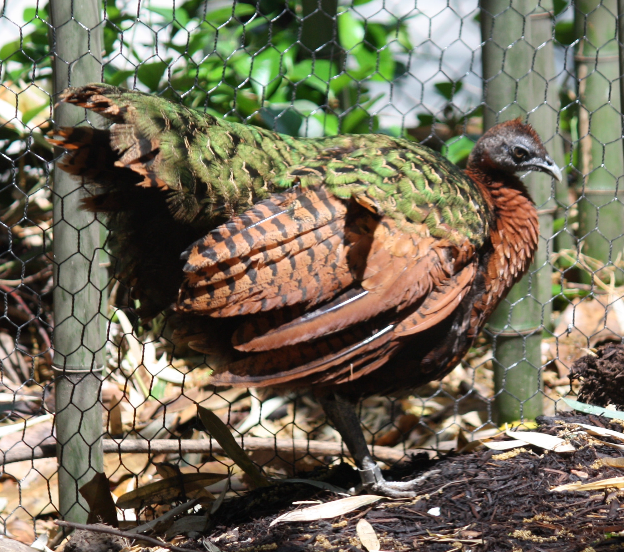 Congo Peafowl Afropavo congensis at Cincinnati Zoo